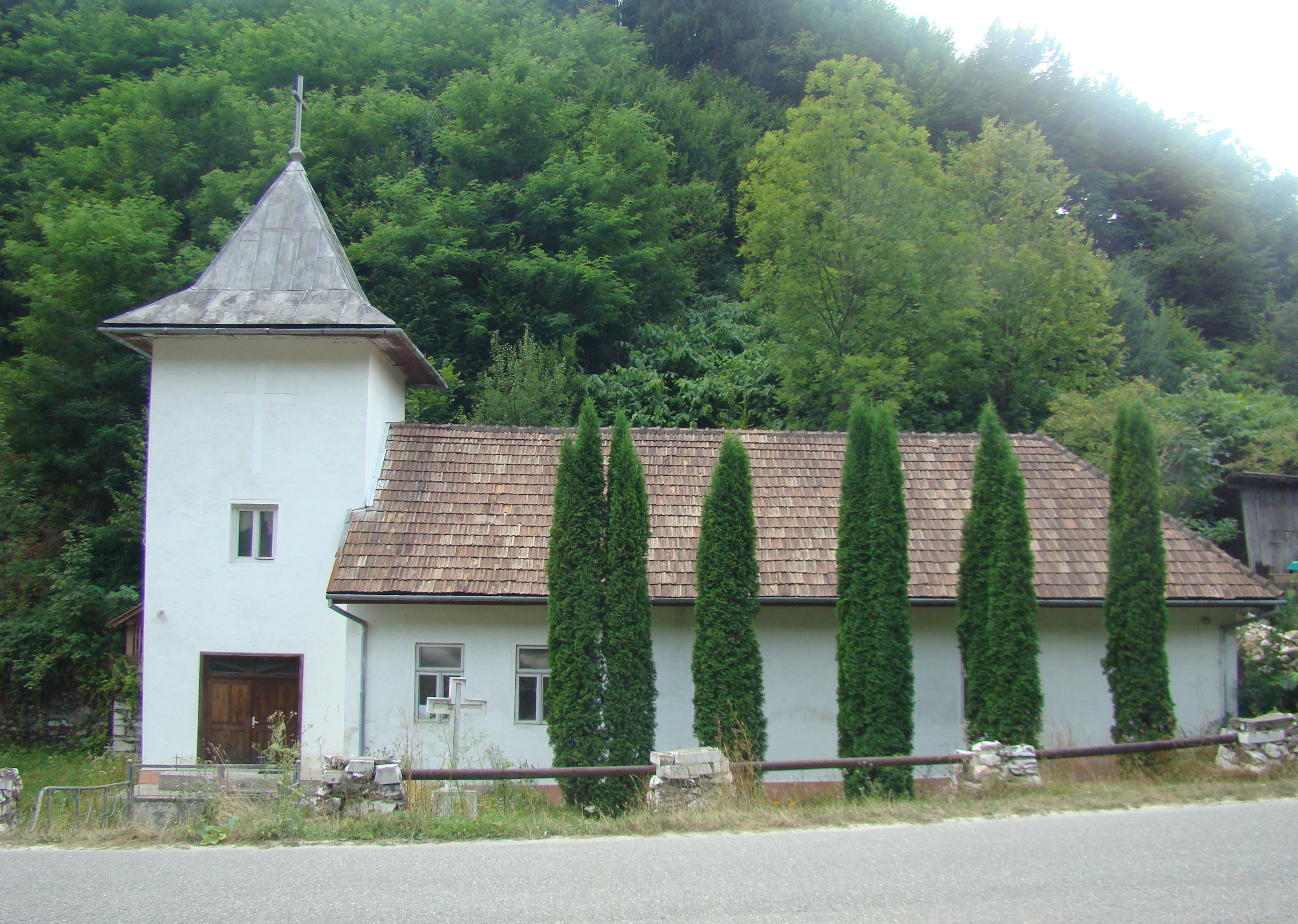 Rușchița, Caraș-Severin county, Romania